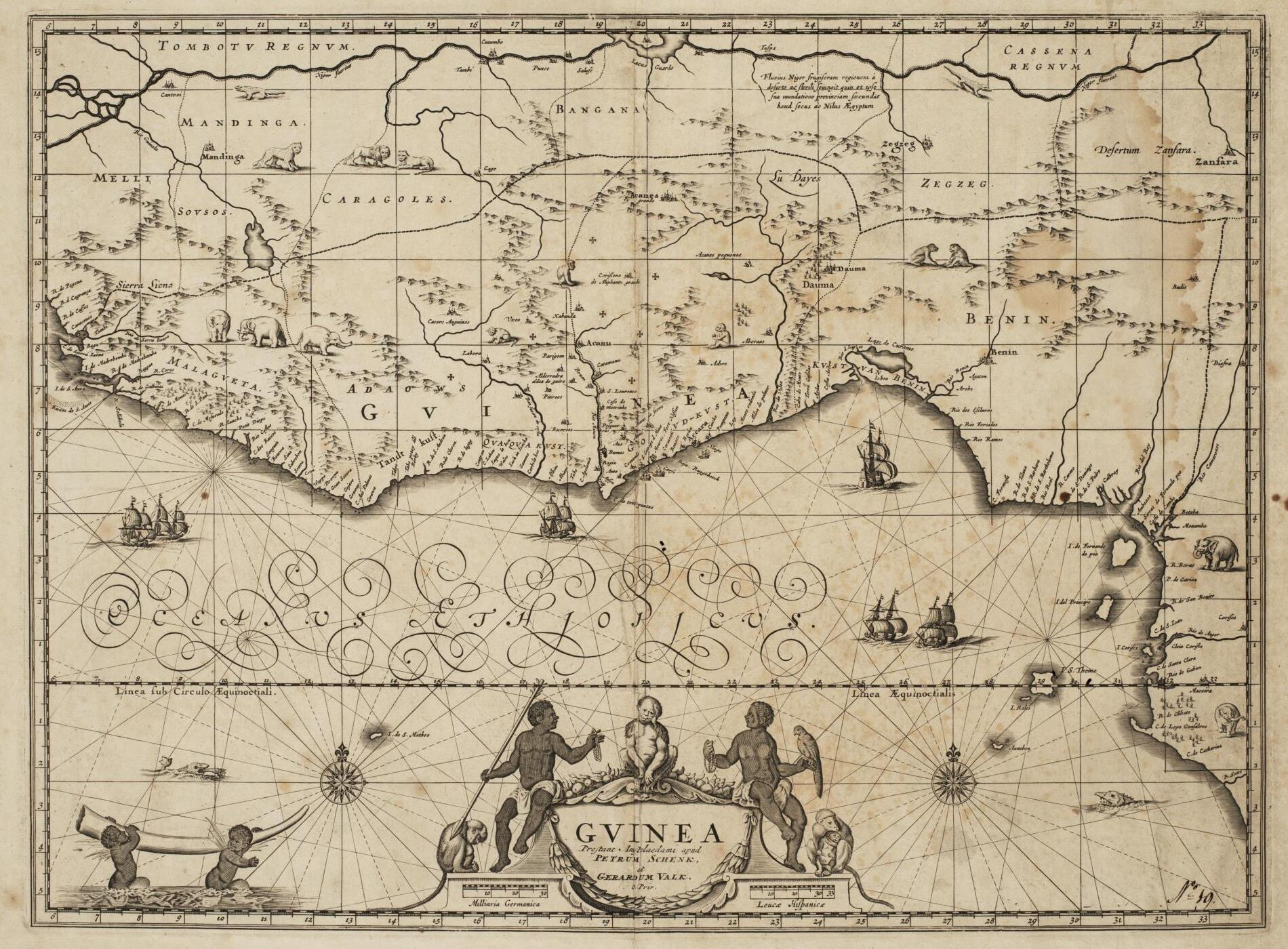 Map of the Gold Coast. Title in the Leupe catalogue (NA): Guina prostrant Amstelaedami, apud:. GVINEA. Bottom right: No: 19. Notes on reverse: Kaart van de kusten van Guinea mitsgaders Plans van diverse forten / 443 [in bold figures stamped on a small label].